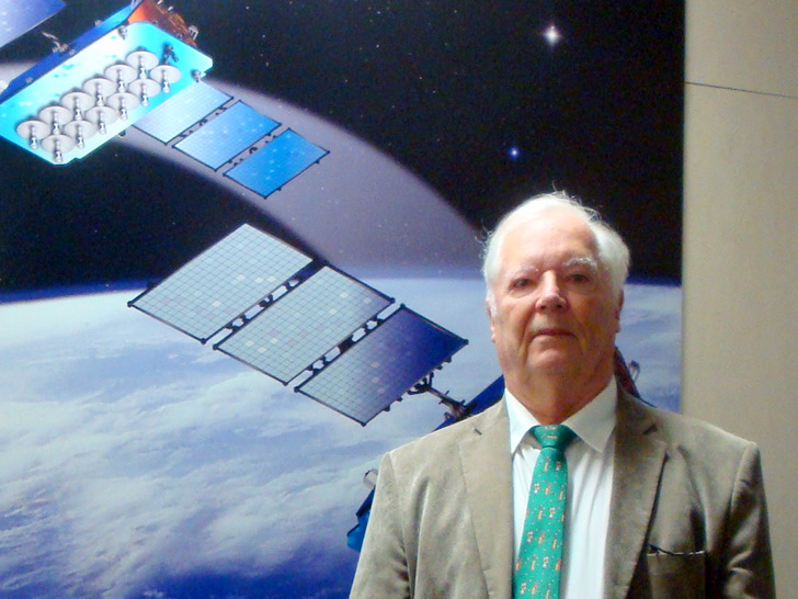 Guy Lebègue, "Mister Spacebus", presenting the Spacebus family during a conference in Cannes